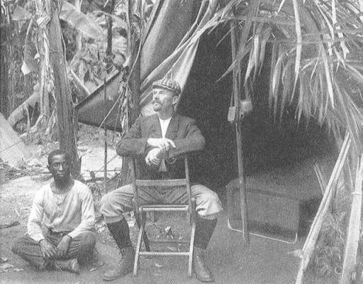 Baron / General Jules Marie Alphonse Jacques de Dixmude in Katanga. He founded Kalemie in Congo in 1894, and was one of the main Belgian generals in World War One